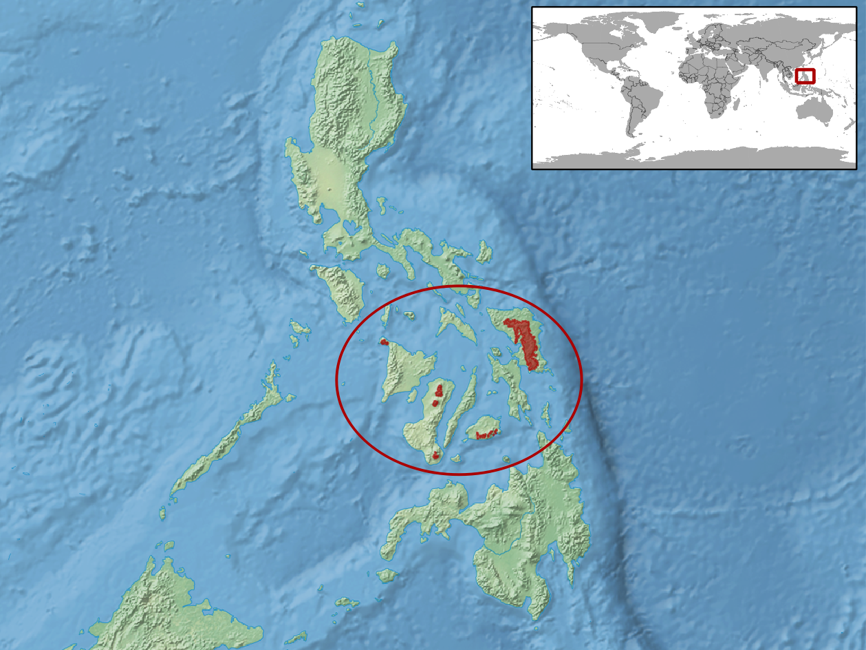 geographic distribution of Pseudogekko brevipes (Native: Philippines)